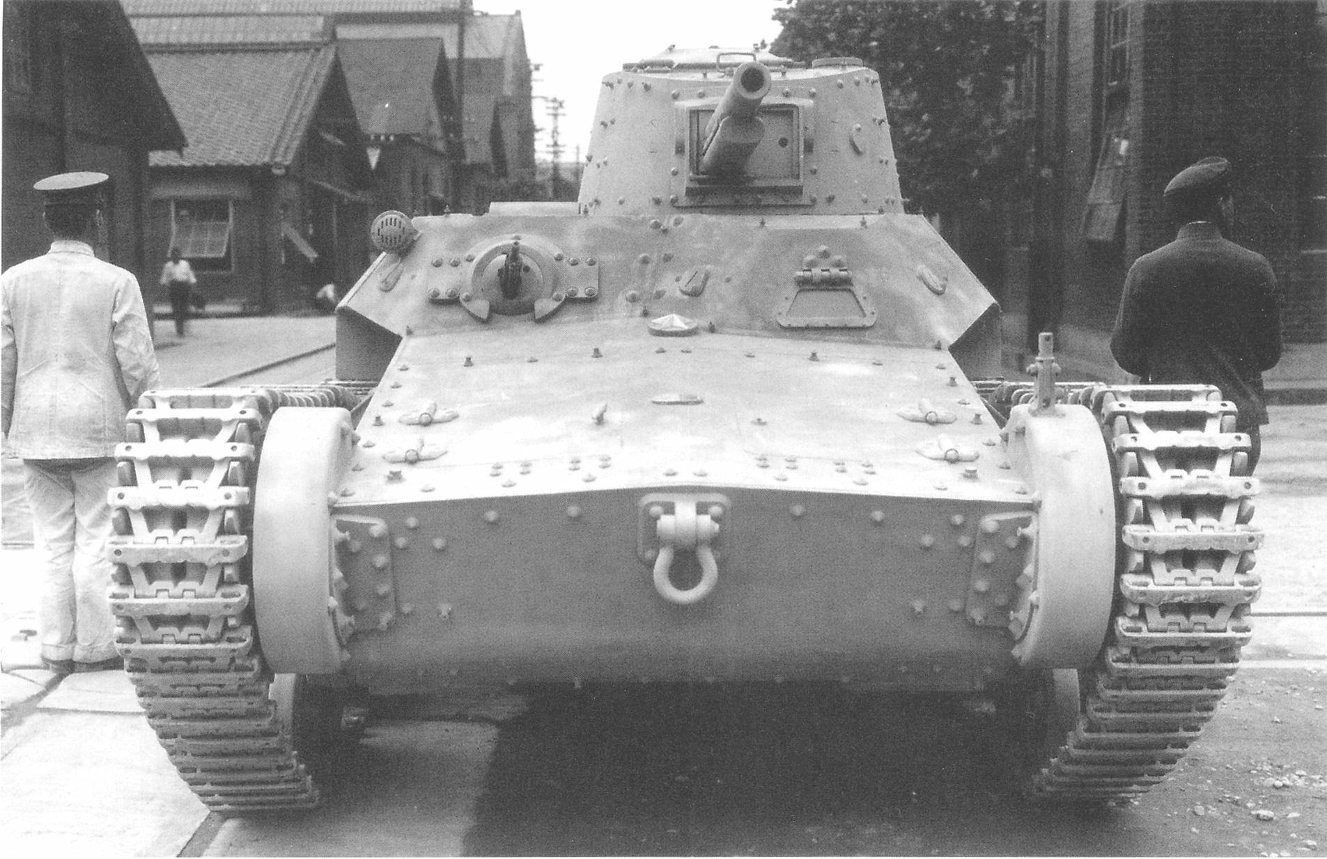 Prototype medium tank Type 97 Chi-Ni, front view